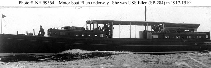 Motorboat Ellen sometime prior to her United States Navy service as patrol vessel USS Ellen (SP-284)